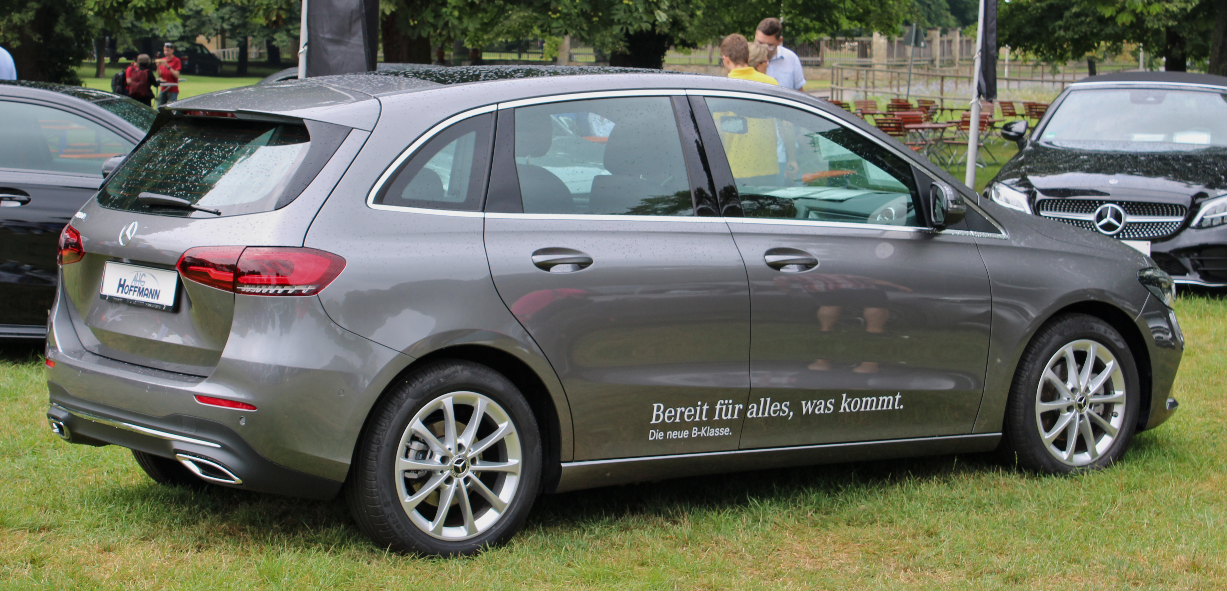 Mercedes-Benz B 180 at Schloss Monrepos 2019